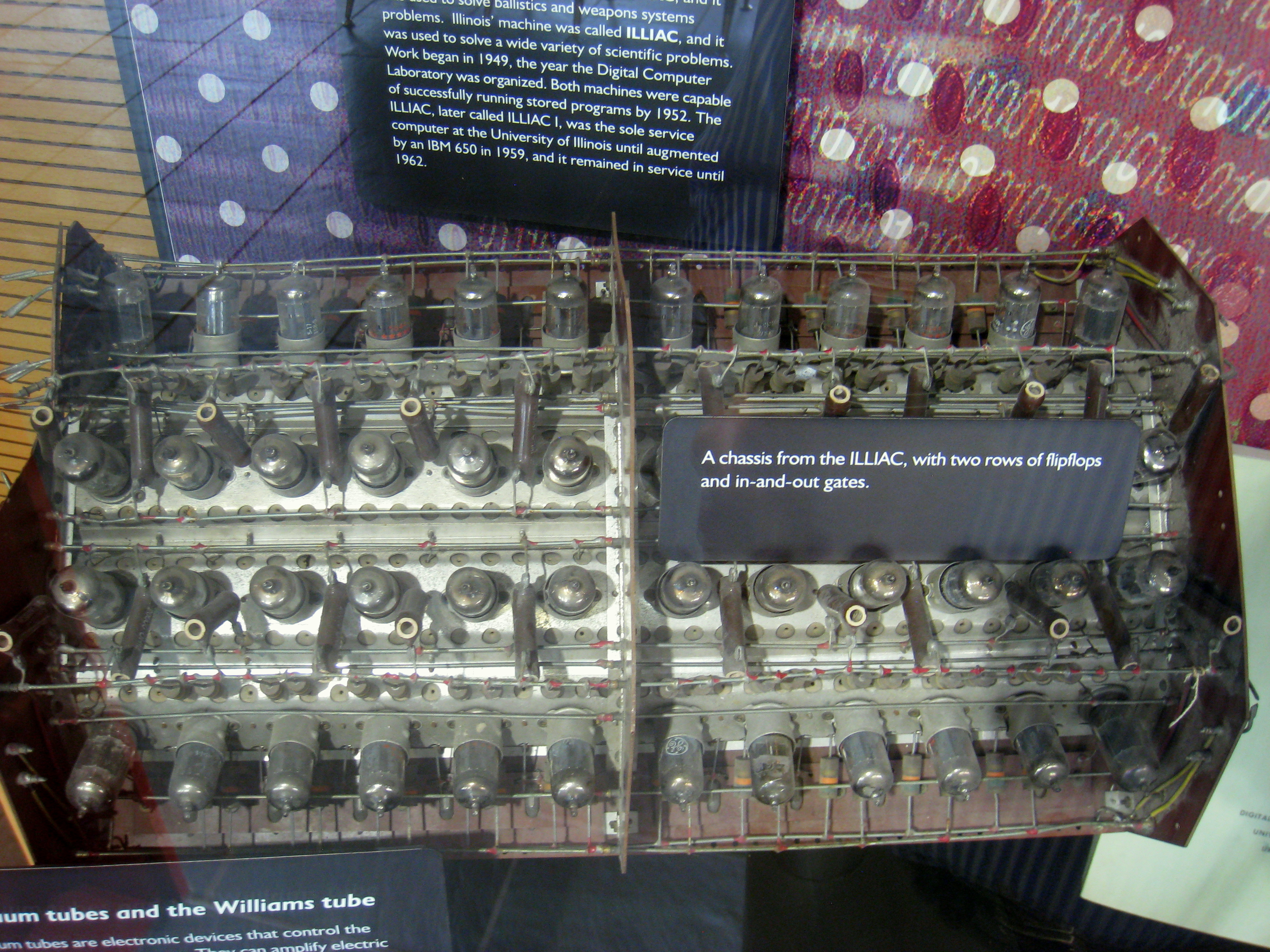 ILLIAC I chassis, on display in the Computer Science building, University of Illinois at Urbana-Champaign, Illinois, USA.